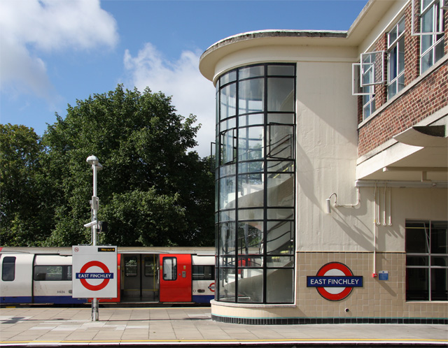 East Finchley Station View of one of the two staircases to the offices above the central tracks at East Finchley Station. This one is on the northbound platforms. The protrusion from the offices on the right of the photo is there to deflect smoke from passing steam locomotives away from the side of the building. Steam locomotives still visited on freight trains until 1961 and diesel after that until the goods yard at East Finchley closed in 1964, info from London's Local Railways by Alan A. Jackson.